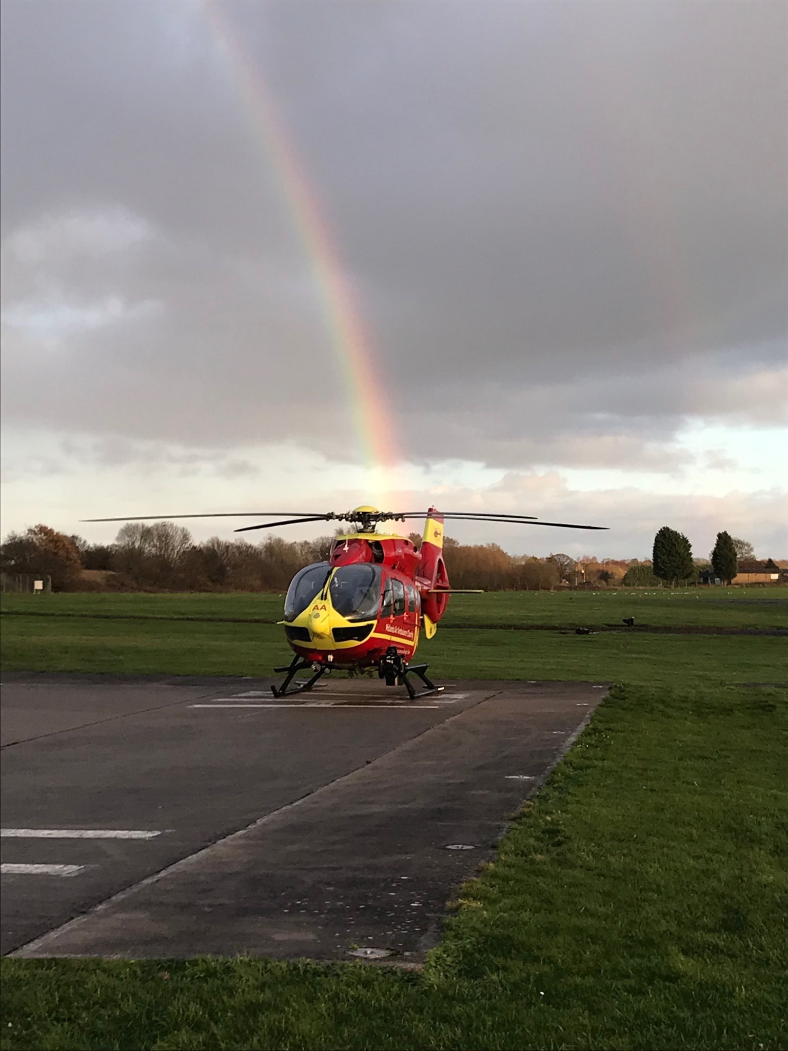 Helimed 03, G-RMAA bathed in a rainbow